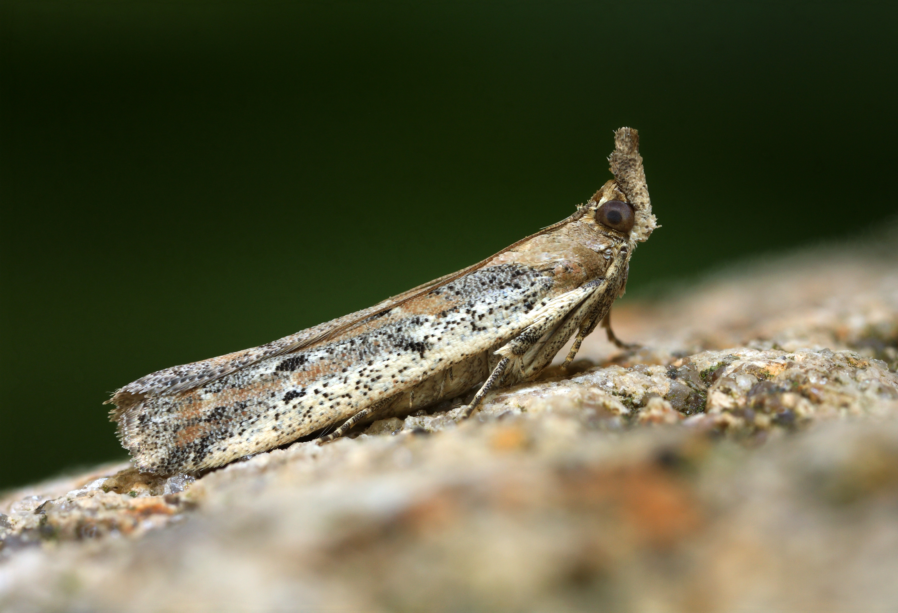 Ex larva on prickly saltwort Spurn Point, Yorkshire. See, I have been waiting nearly 11 months for this moth to emerge after collecting the larva at Spurn.